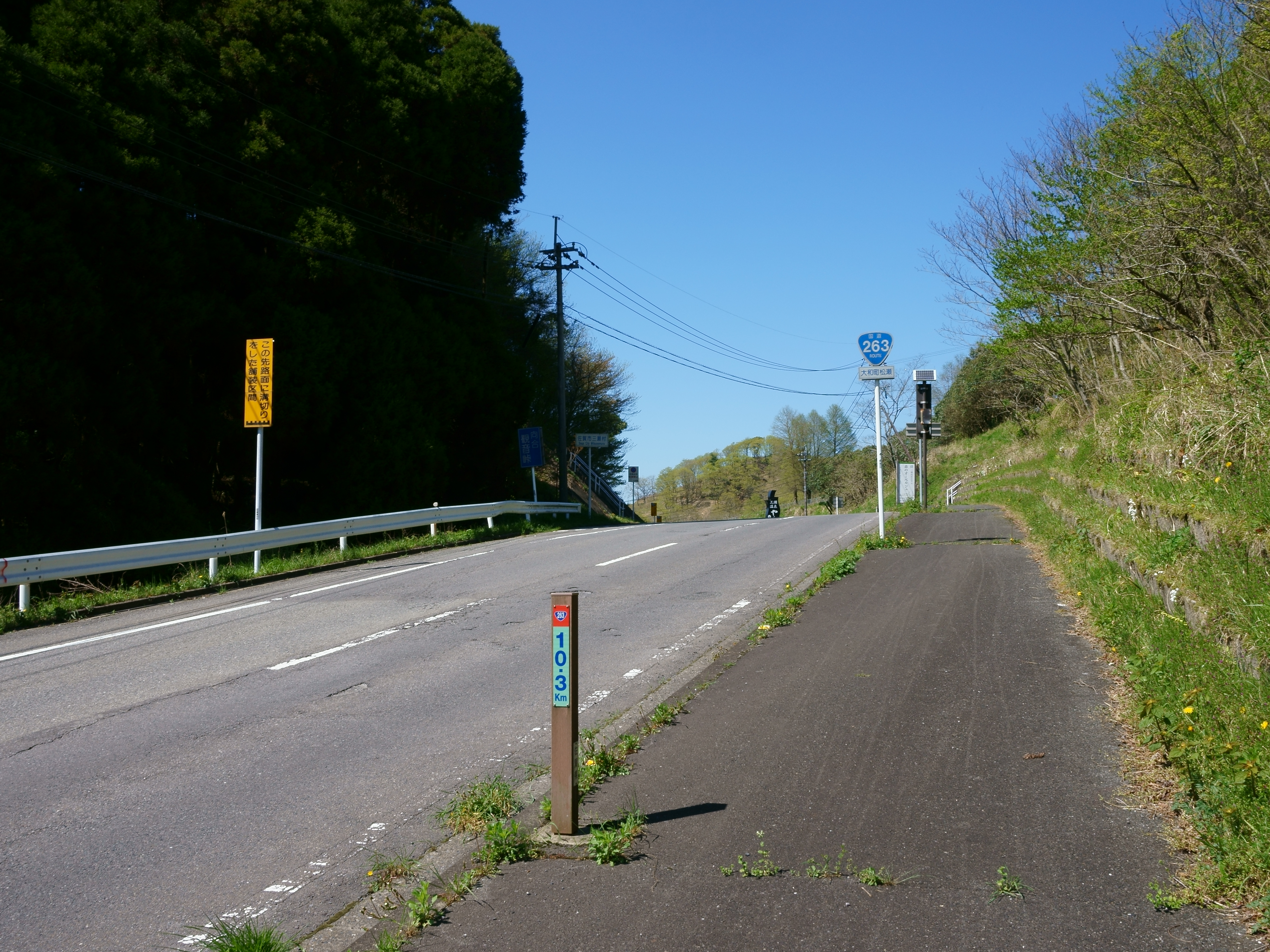 Mukiai mountain path in Route 263, between Mitsuse and Yamato, in Saga city, Saga prefecture.